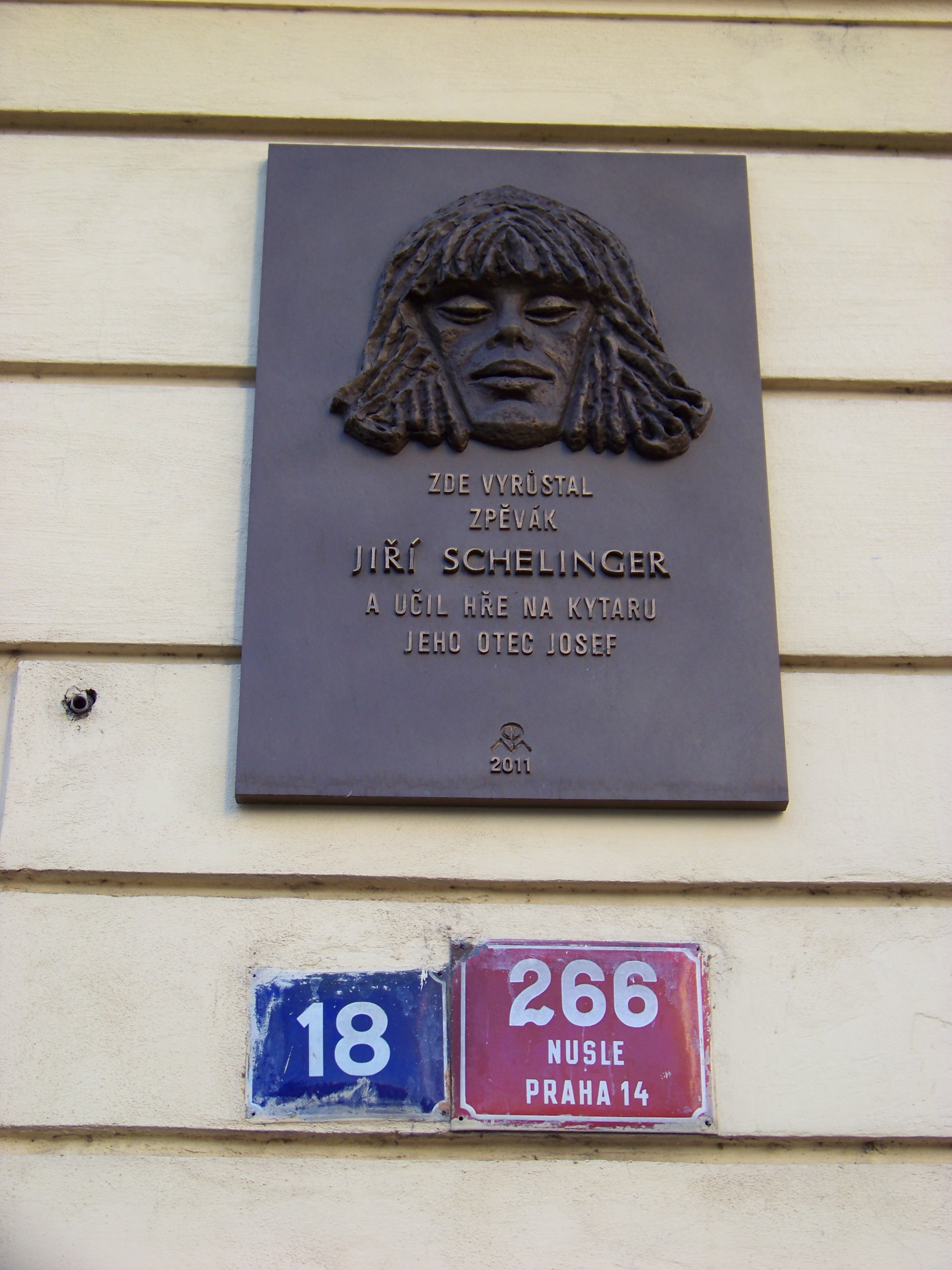 Prague-Nusle, the Czech Republic. Čestmírova 266/18, a plaque to Jiří Schelinger.